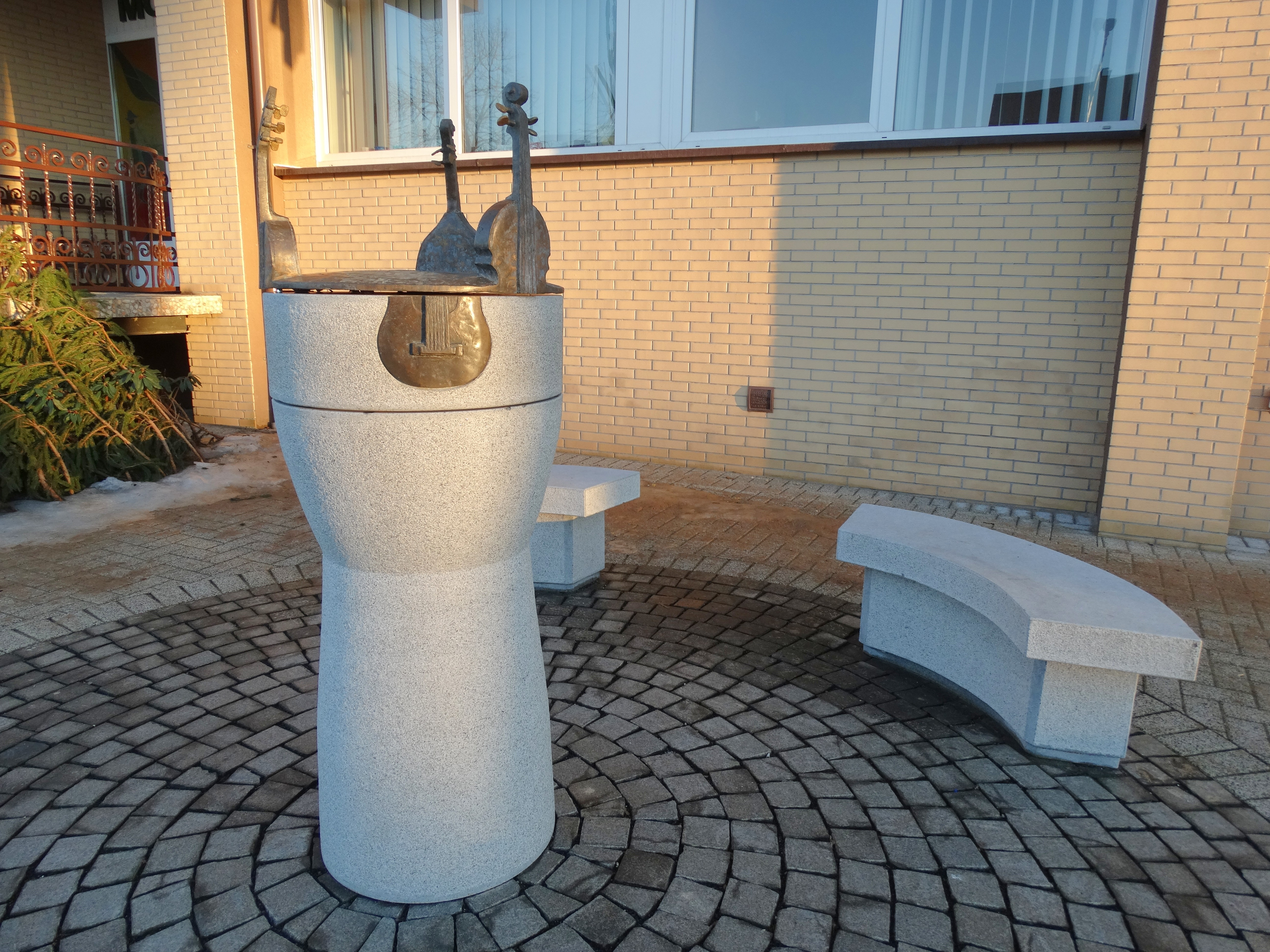 Art school, kinetic art sculpture, Šilalė, Lithuania